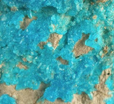 Kröhnkite Locality: Chuquicamata Mine, Chuquicamata District, Calama, El Loa Province, Antofagasta Region, Chile (Locality at ) Size: 10.8 x 8.3 x 4.0 cm. This striking, vivid blue cabinet specimen was formerly in the collection of well-known collector Marion Stuart. Her accompanying card and unique plastic engraved label identify the mineral as leightonite, an ultra-rare copper sulfate, which typically has the crystal form seen on this piece. The Type Locality is the Chuquicamata Mine of Chile. Krohnkite is another ultra-rare copper sulfate, with similar color from Chuquicamata, but usually forms in lamellar growth of curved crystals in parallel bundles. Another dealer had this specimen X-rayed in May, 2008 and the report is included with the specimen. It was krohnkite on the rhyolite matrix, but in a very uncommon botryoidal/crust-like form. This specimen exhibits the most intense teal blue color I have ever seen in a natural mineral specimen and has great translucence. And the variation in blue color, in itself, is very noteworthy.